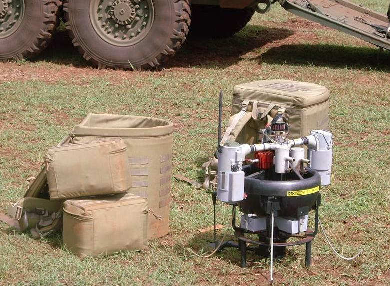 XM156 Class I UAV including backpack